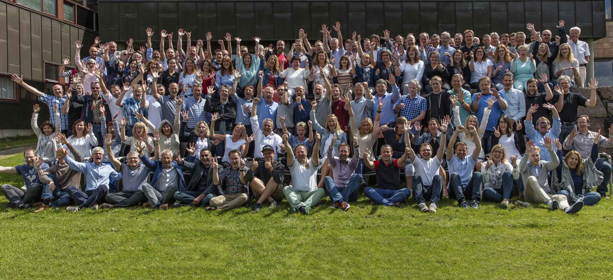 Employyes at Indra Navia AS, the Norwegian subsidiary of Indra Sistemas.